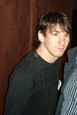 A picture of Messi taken during a trip to Barcelona. The picture was taken at a dinner-party after a game. The image is cropped - the original includes my grandfather